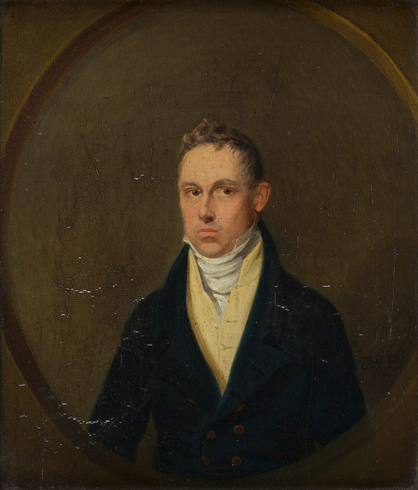 Oil portrait of Edmund Harris, unknown artist